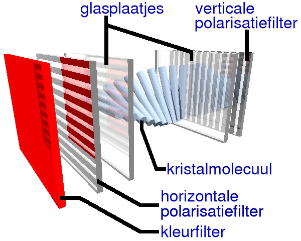 LCD subpixel including Dutch description